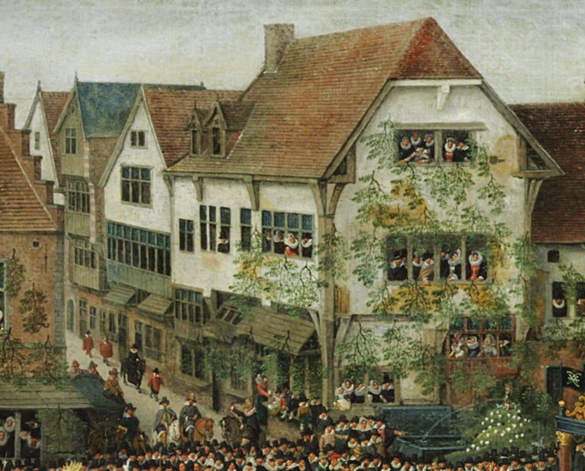 Detail of the 5th painting in Alsloots Ommegang series.